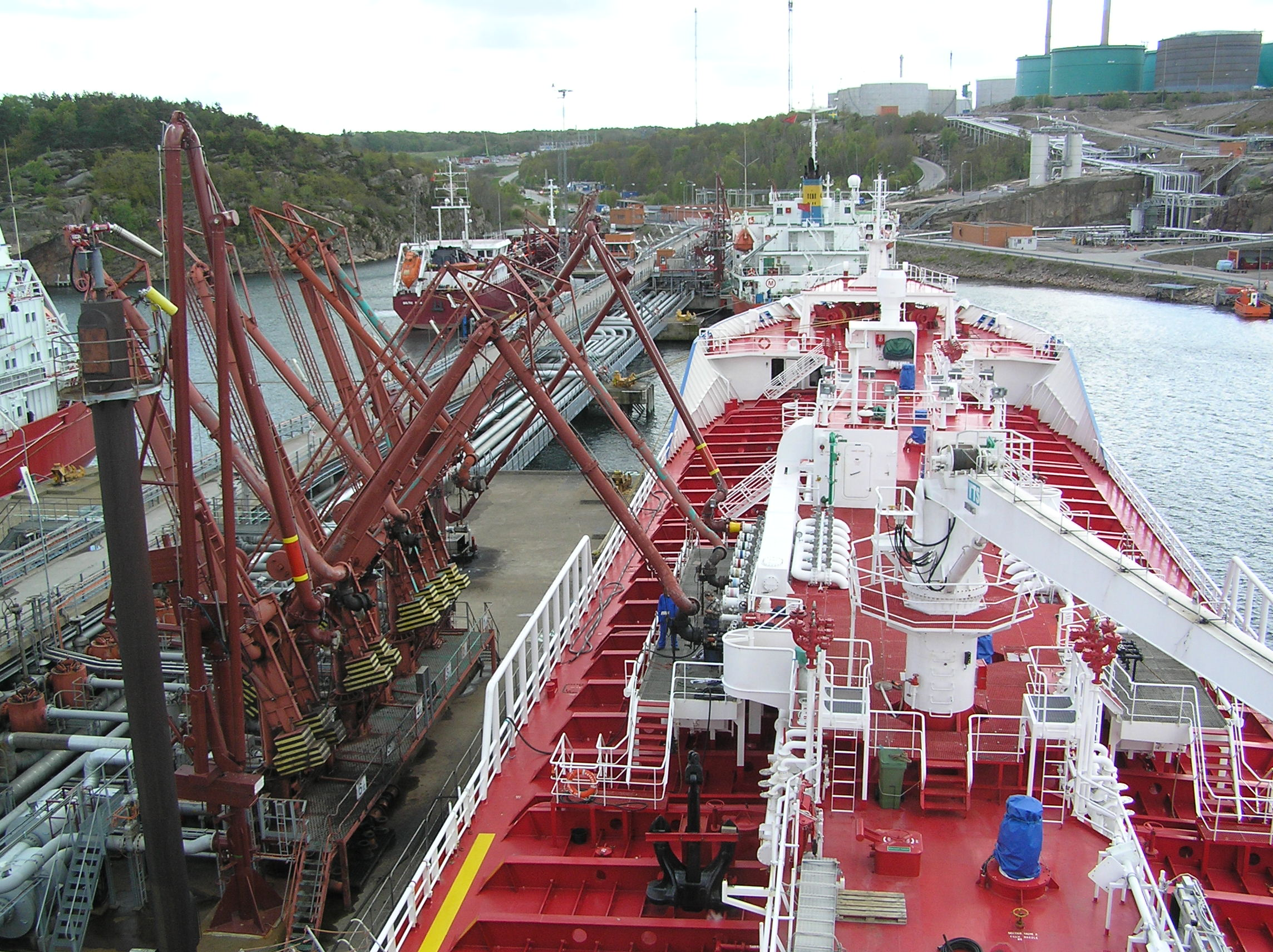 Ship loading in Brofjorden's export dock. The loading arm closest to the camera is for bunker oil, the one in the middle for cargo and the the one farthest away for vapour return.